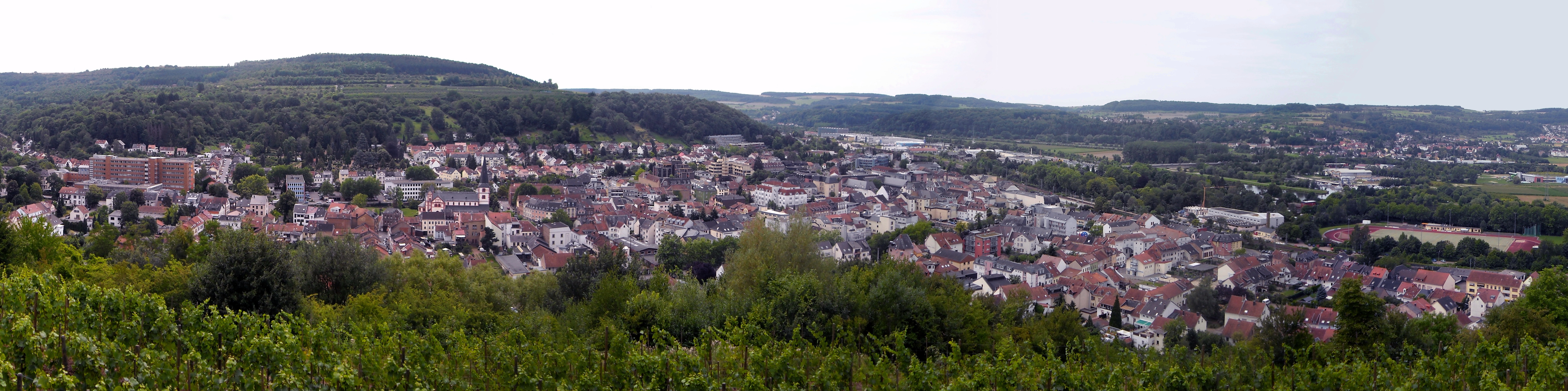 Panorama of Merzig